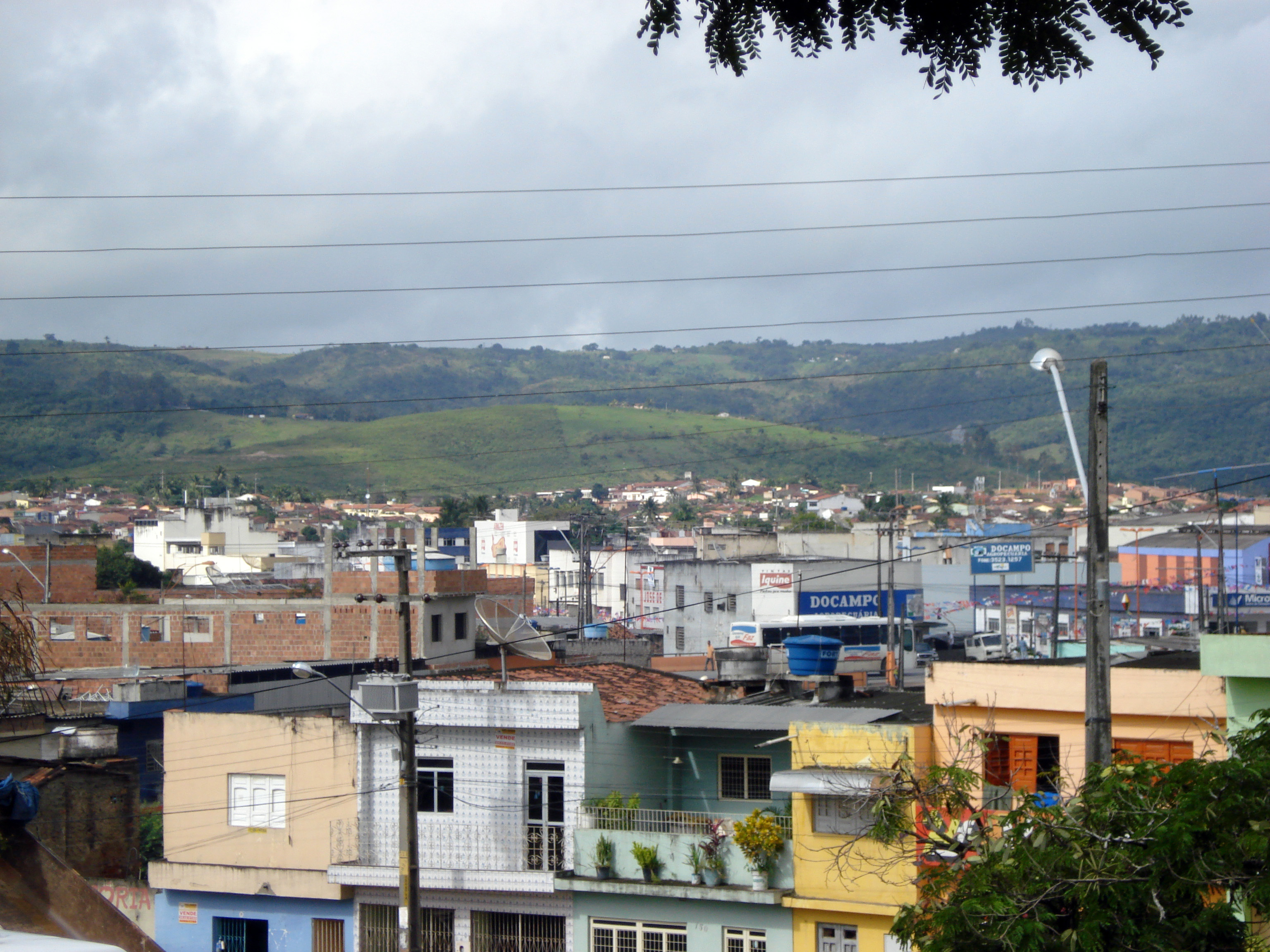 View over Vitória de Santo Antão village, Pernambuco, Brazil